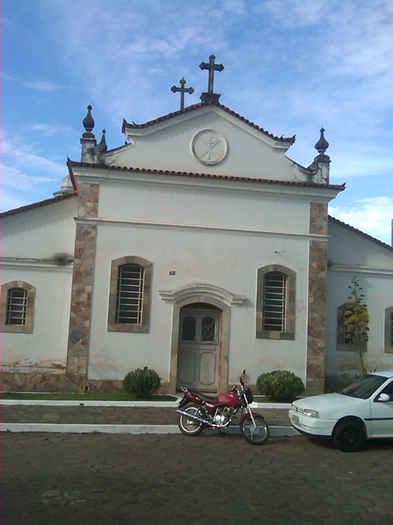 Back of the Church of Andrelândia, Minas Gerais, Brazil.